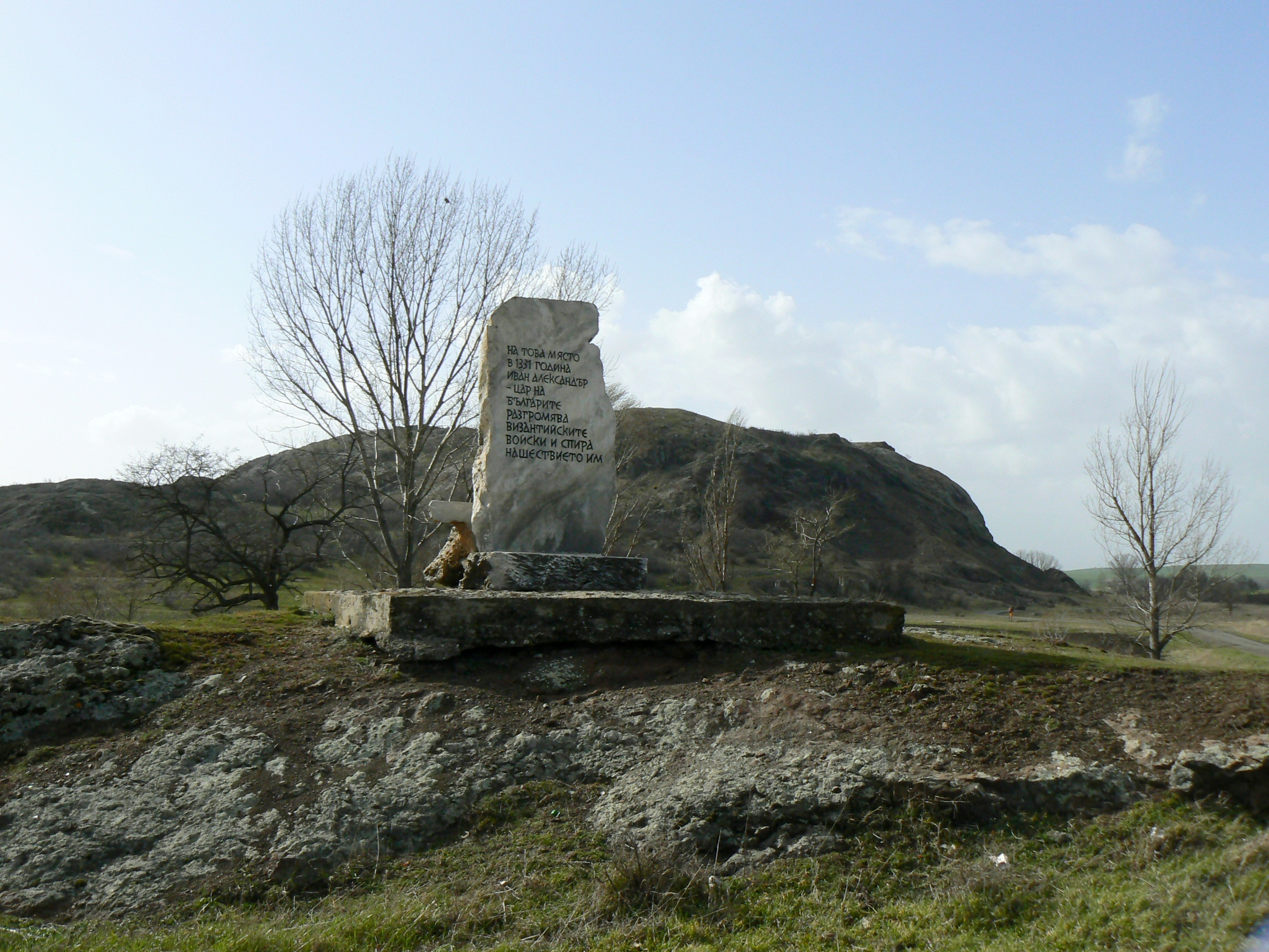 Monument of the Battle of Rusokastro in 1331 year, between the villages of Rusokastro and Zhelyazovo, Bulgaria